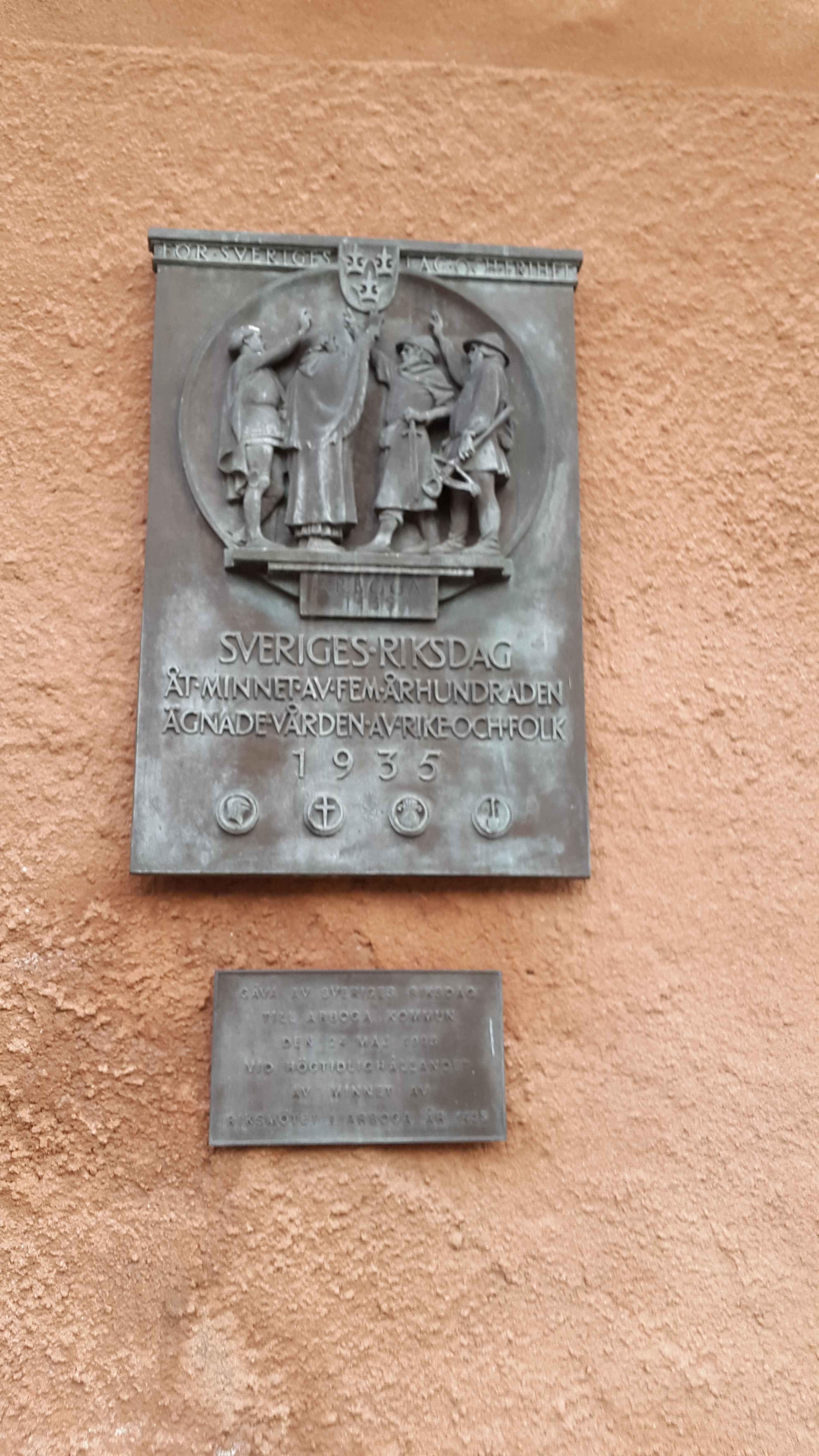 Memory platesof the Arboga meeting in 1435